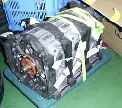 20B ROTARY ENGINE,peripheral port OKURA ROTARY RACING JAPAN GT300